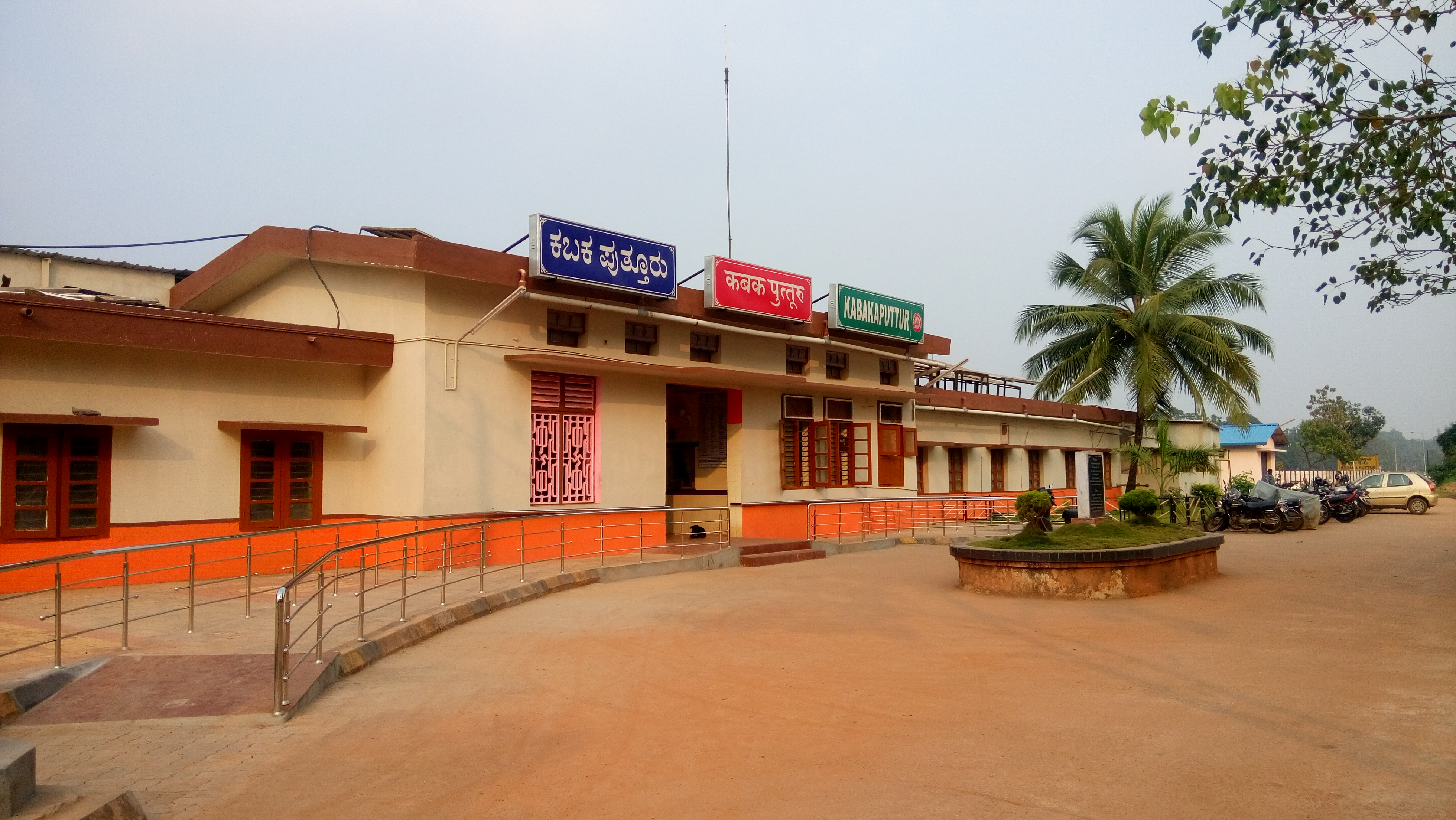 Railway Station in Puttur,Karnataka